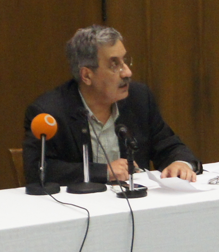 Depicted person: Charbel Nahas – Lebanese academic and politician